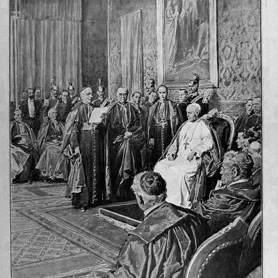 Canonization of Jeanne d'Arc 16 May 1920 by Pope Benedict XV in St.Peter’s - proclamation of santity